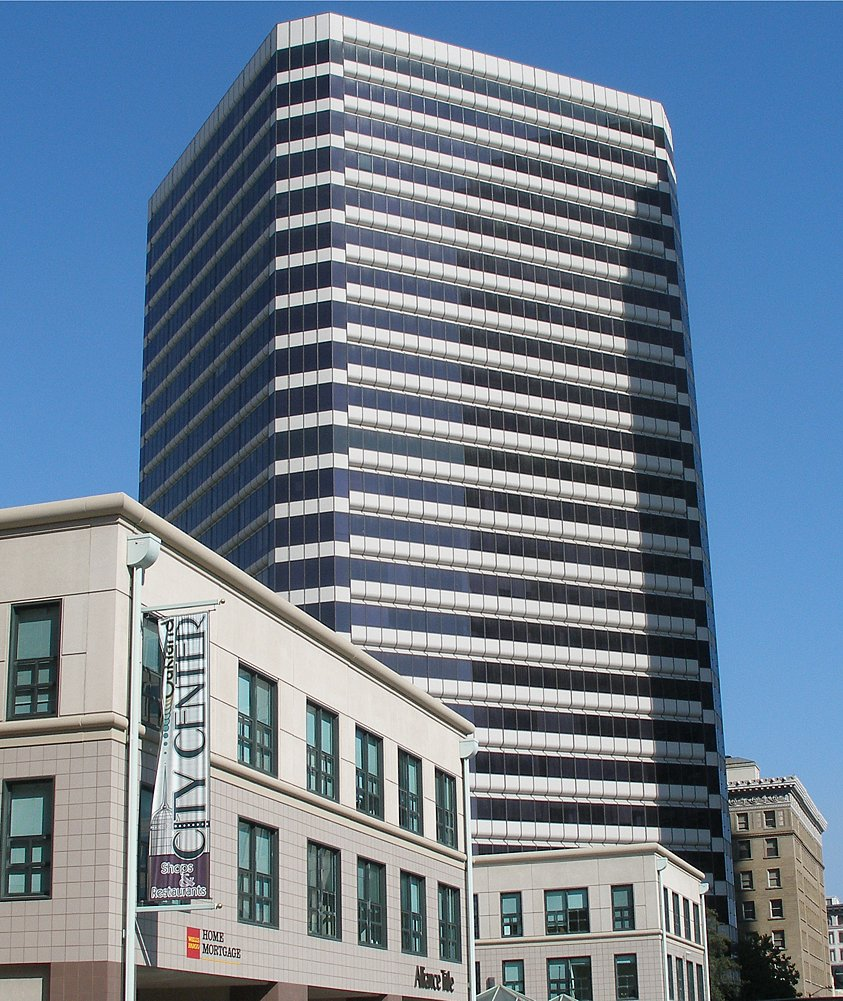 The headquarters of the Clorox Company 1221 Broadway, Oakland 94612. Photographed on September 13, 2006 by user Coolcaesar.